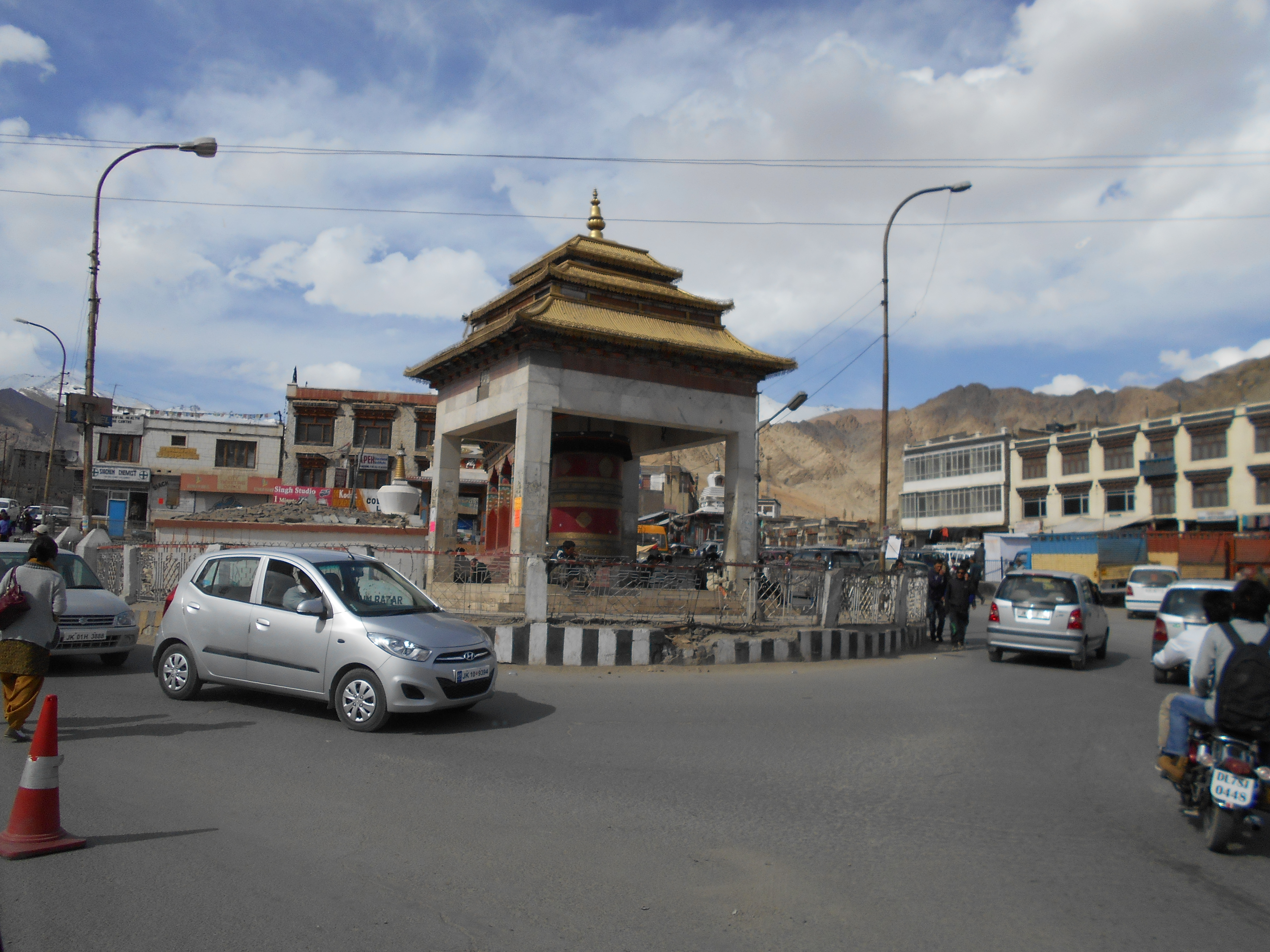 Leh City